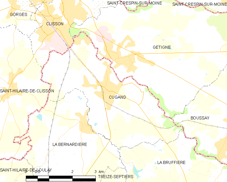 Map of French municipality Cugand